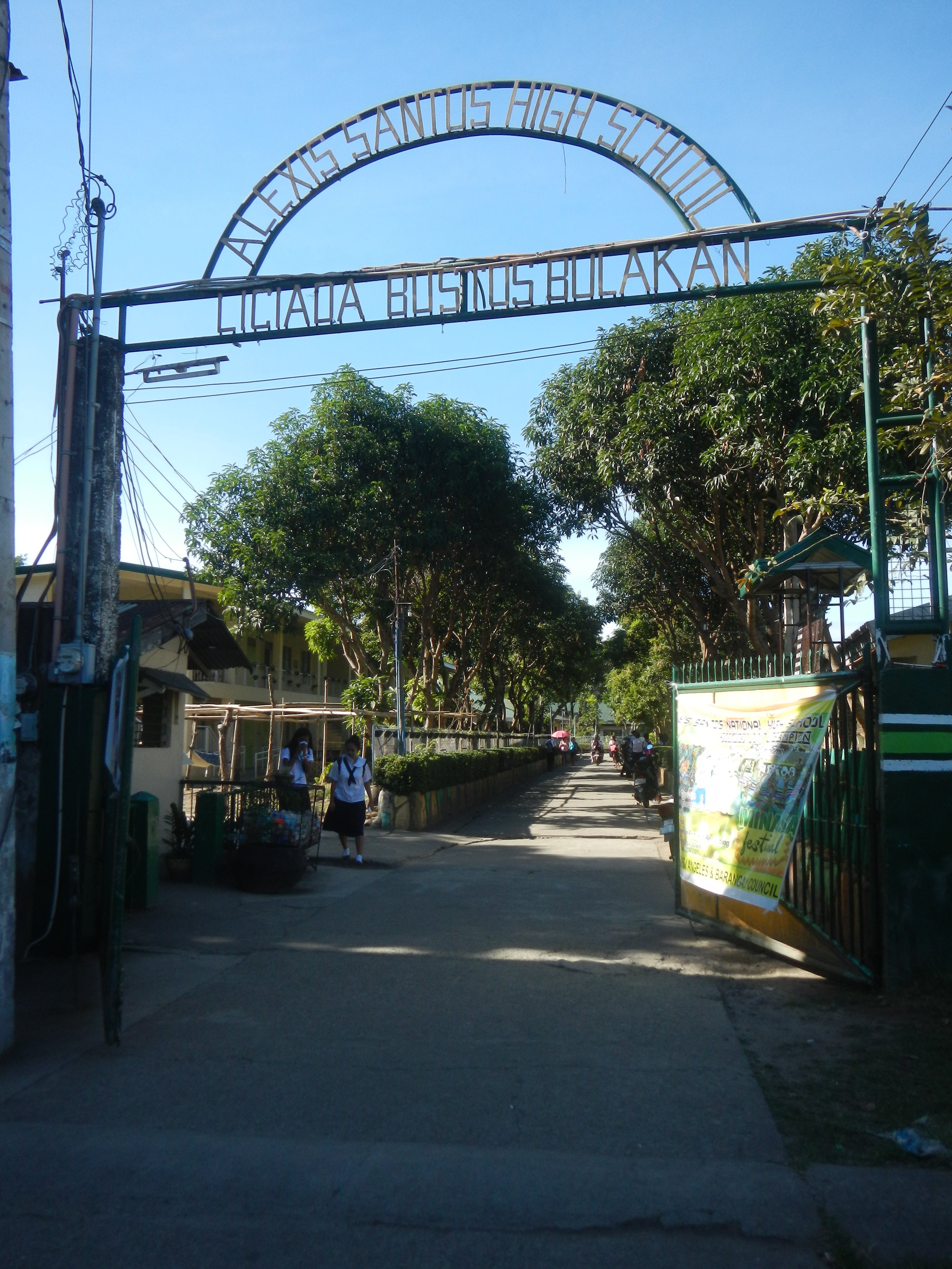 Alexis G. Santos National High School Nilo A. Abulencia, Principal II, Renelyn A. Regala Head Teacher III Alexis G. Santos National High School 14°54'32"N 120°55'36"E son of Alejo S. Santos Bulacan Military Area, married to Juanita Garcia they had eight children: Reynaldo, Edgardo, Ravenal, Lamberto, Alexis, Liberty, Daisy, and Nenita located in Barangay Liciada, Bustos Liciada, beside Catacte and Malawak, Bustos, Bulacan, Province (from C.L. Hilario Highway corner General Alejo Santos Highway, Bustos-Angat, Bulacan connected from and to San-Rafael-Bustos-Plaridel-Balagtas by-pass road, Highway of the ]North Luzon Expressway (Notes: Express permission was granted by the Mayor's Office of Bustos, Bulacan who called the Principal of Alexis School, to photograph this School as part of the Senternaryo of Bustos; Judge Florentino Floro, the owner, to repeat, Donor Florentino Floro of all these photos hereby donate gratuitously, freely and unconditionally all these photos to and for Wikimedia Commons, exclusively, for public use of the public domain, and again without any condition whatsoever).